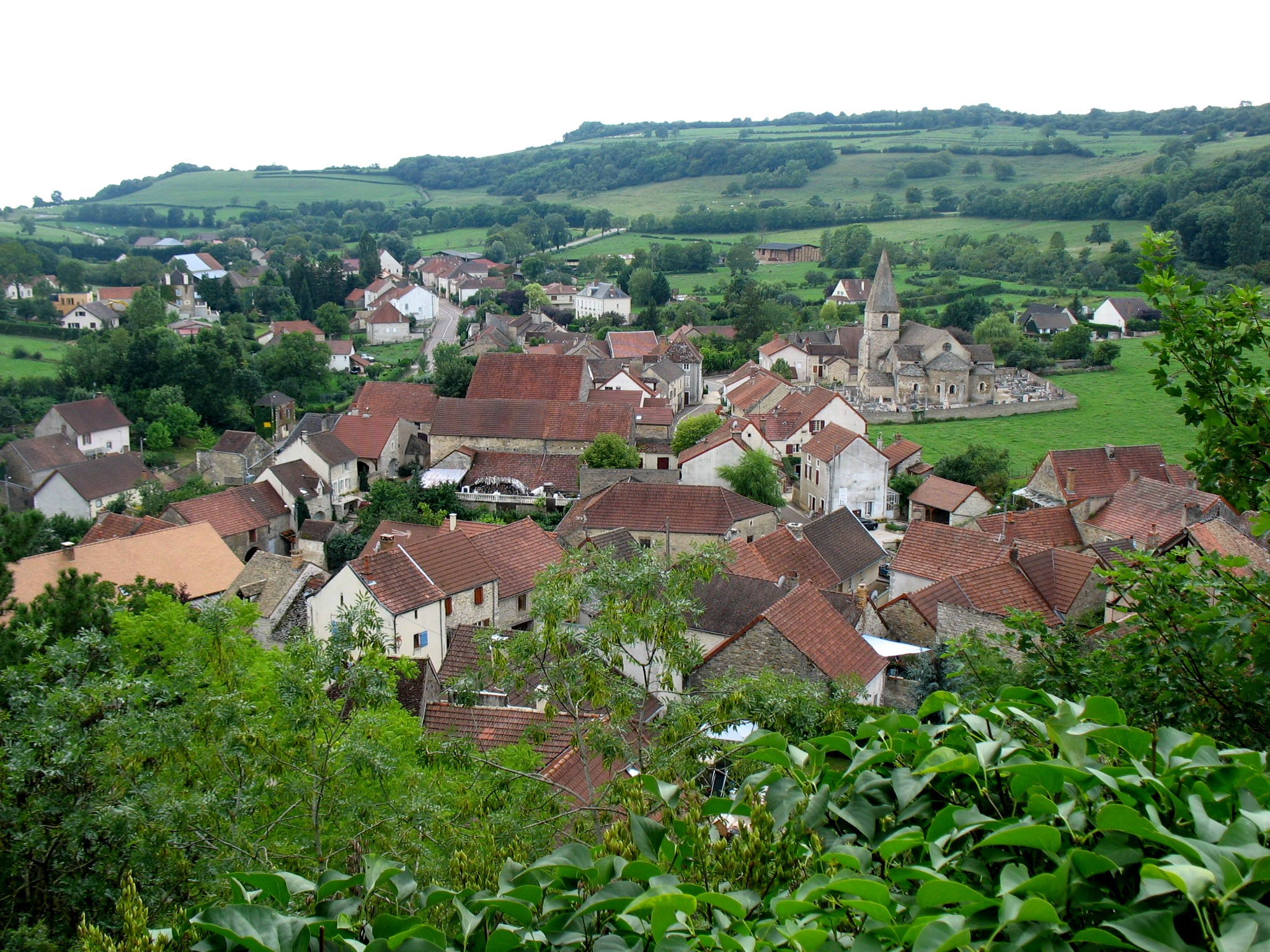 Village La Rochepot and its old Roman-style church as viewed fro the walls of Chateau de la Rochepot